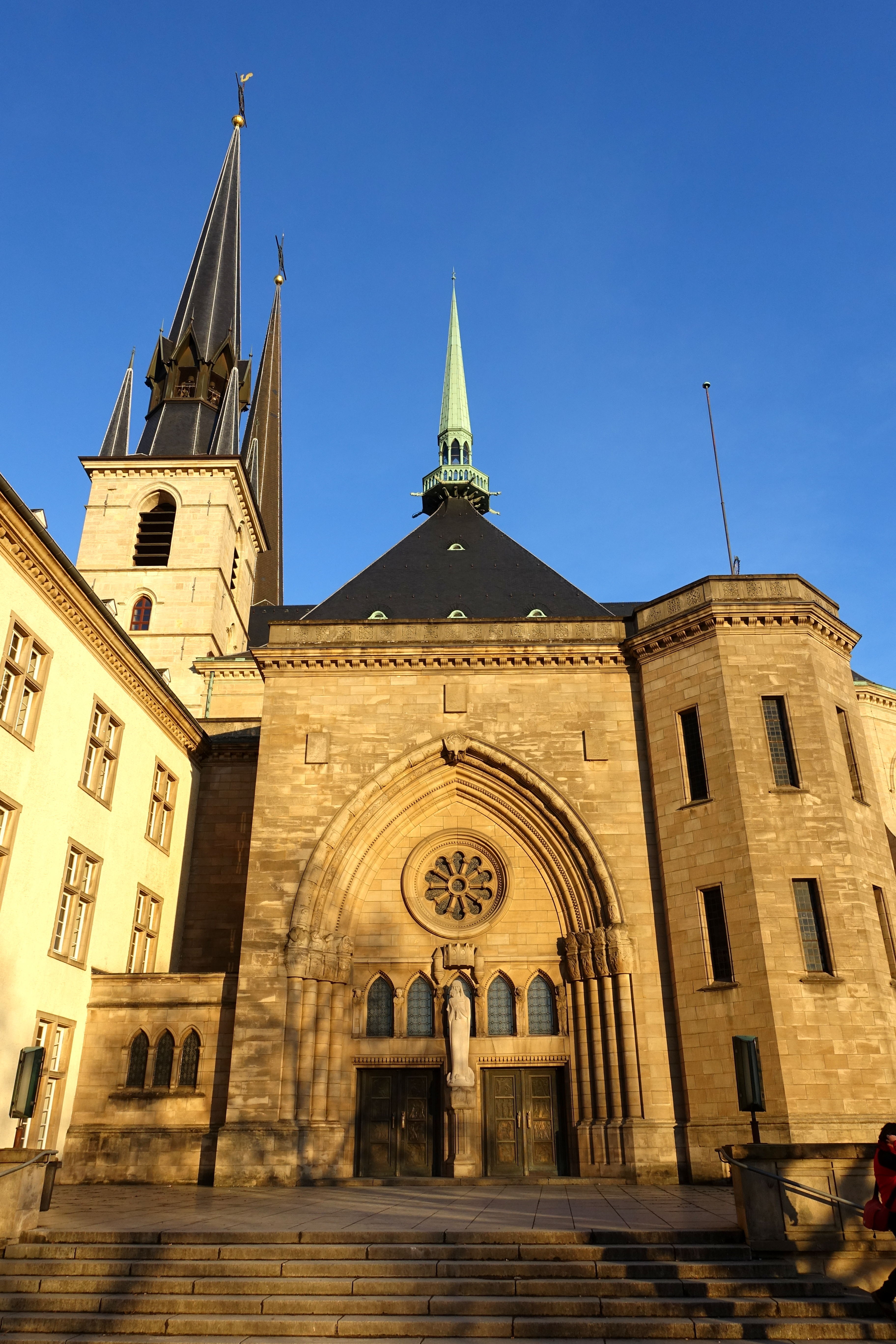 Exterior of Cathédrale Notre-Dame de Luxembourg - Luxembourg City, Luxembourg.